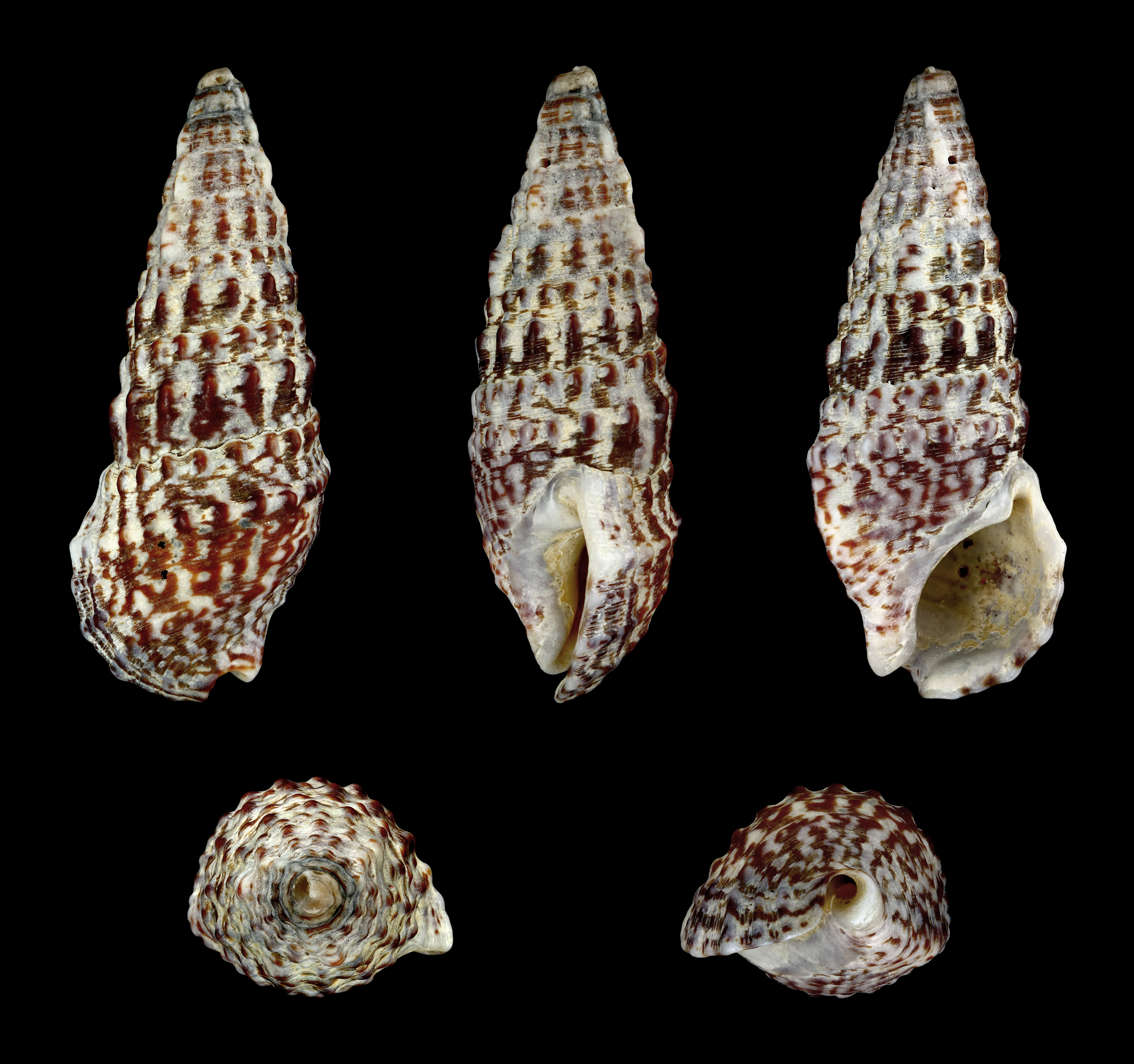 Common Cerith, Length 4.1 cm; Originating from La Matrague, Peninsula of Hyères. Dept. Var, France ; Shell of own collection, therefore not geocoded. Dorsal, lateral (right side), ventral, back, and front view.